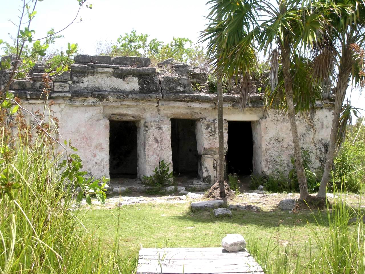 Xlahpak temple at Sian Ka'an biosphere reserve